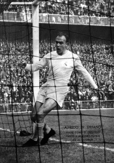 Real Madrid's superstar Alfredo Di Stéfano scoring a goal.